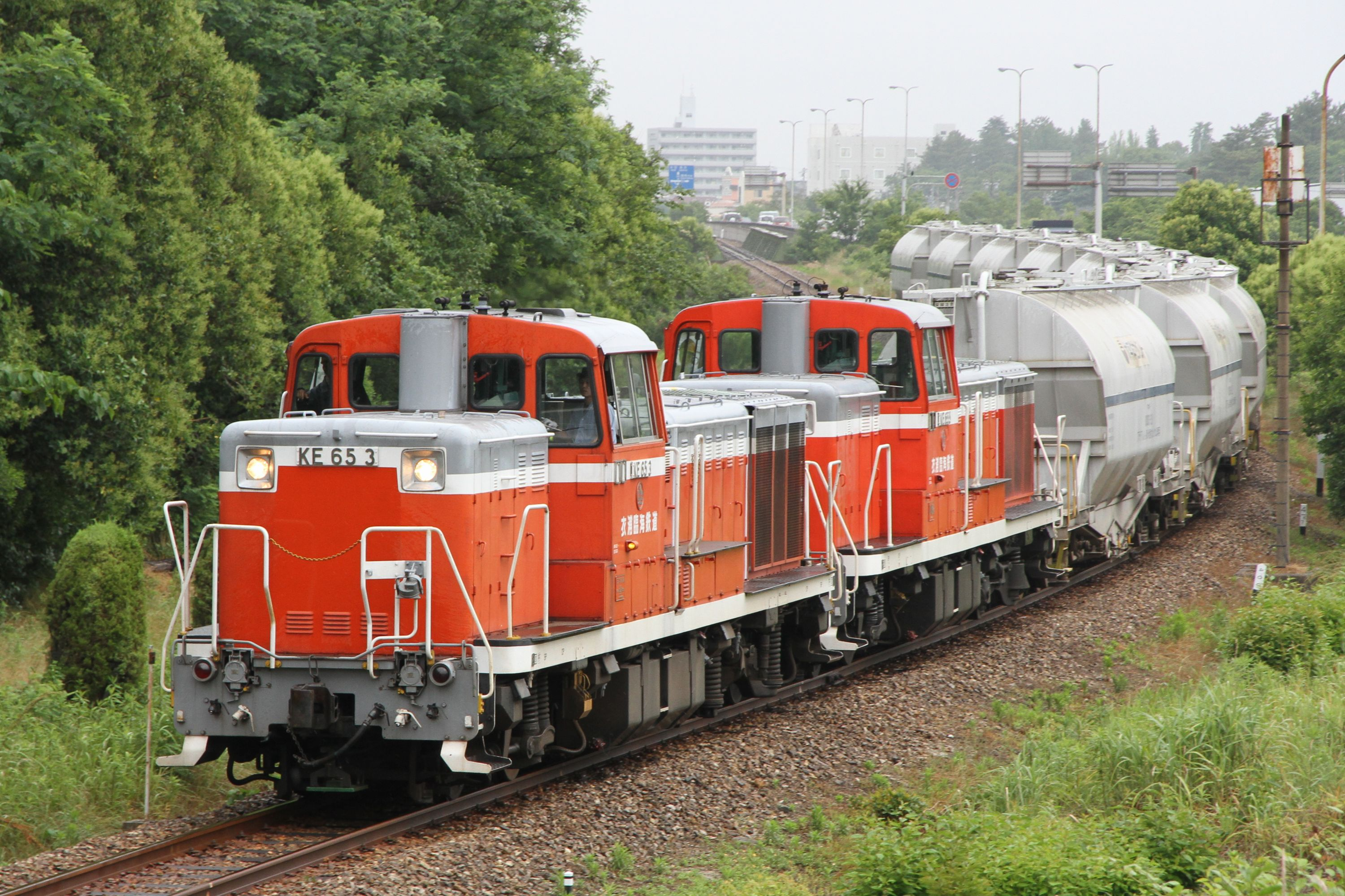 This is a picture of calcium carbone transport train.(Japan)